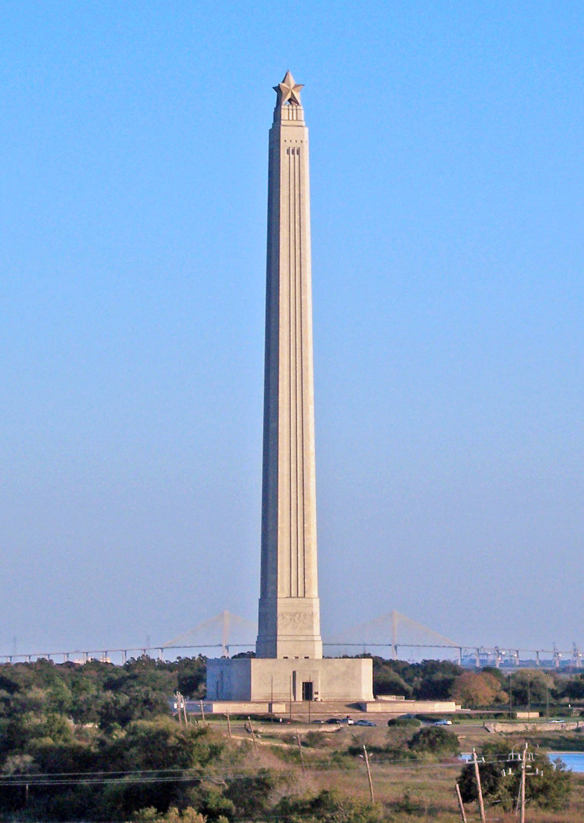 Photo of the San Jacinto Monument taken from the Battleship Texas in Fall 2006. The Fred Hartman Bridge is visible in the background.